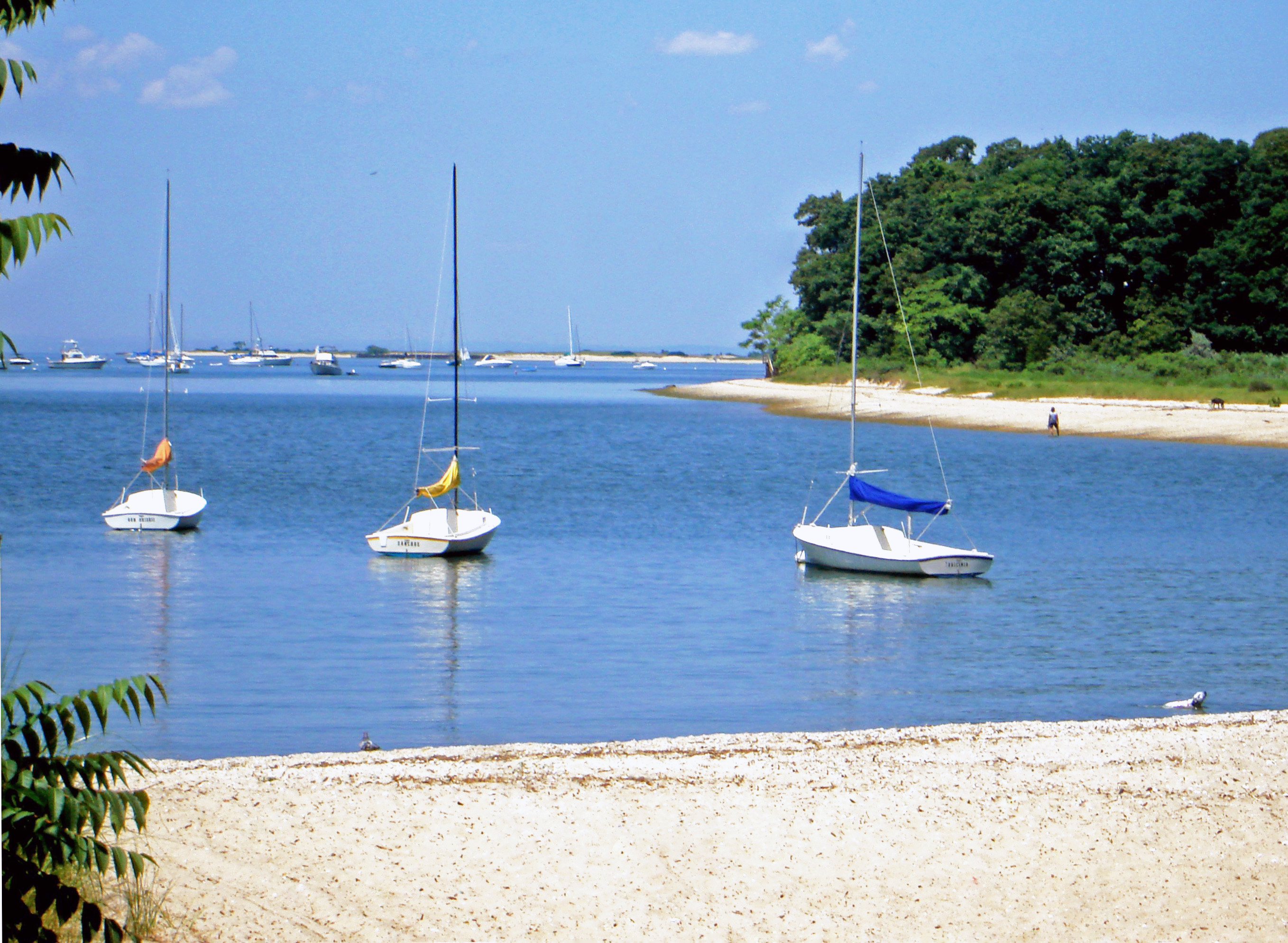 Sailboats in Port Jefferson Harbor, New York.